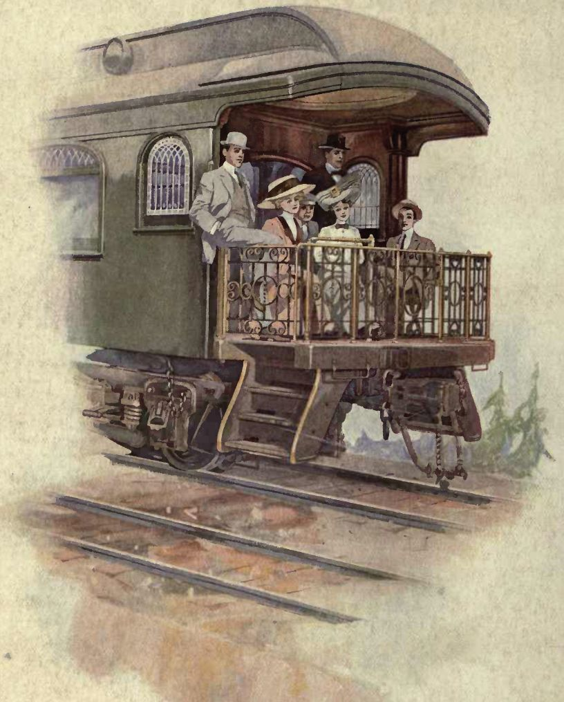 Backpiece from To Geyserland, an Oregon Short Line Railroad Brochure on Yellowstone National Park (1910)